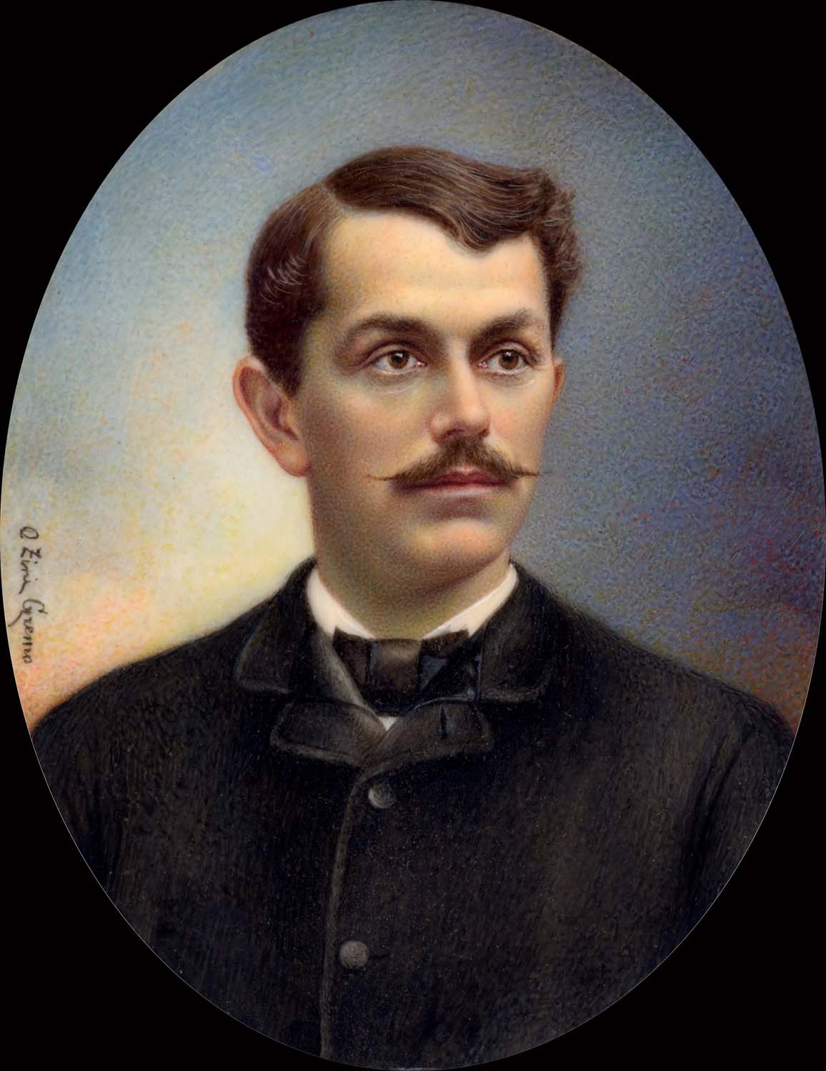 Portrait of George Rufus Shatto, an early developer of Los Angeles, California and owner of Santa Catalina Island, California.